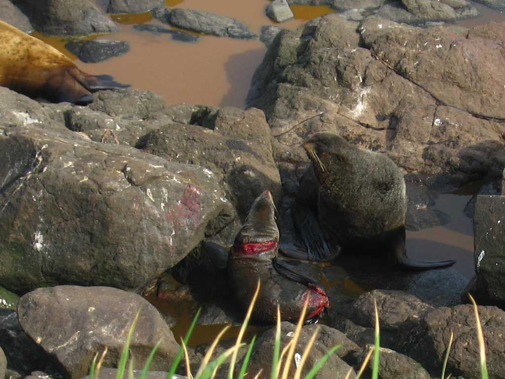 Injured female of northern fur seal